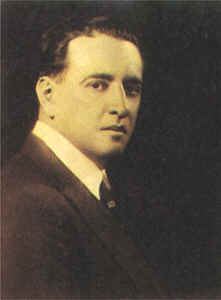 Image of Jose Eustacio Rivera